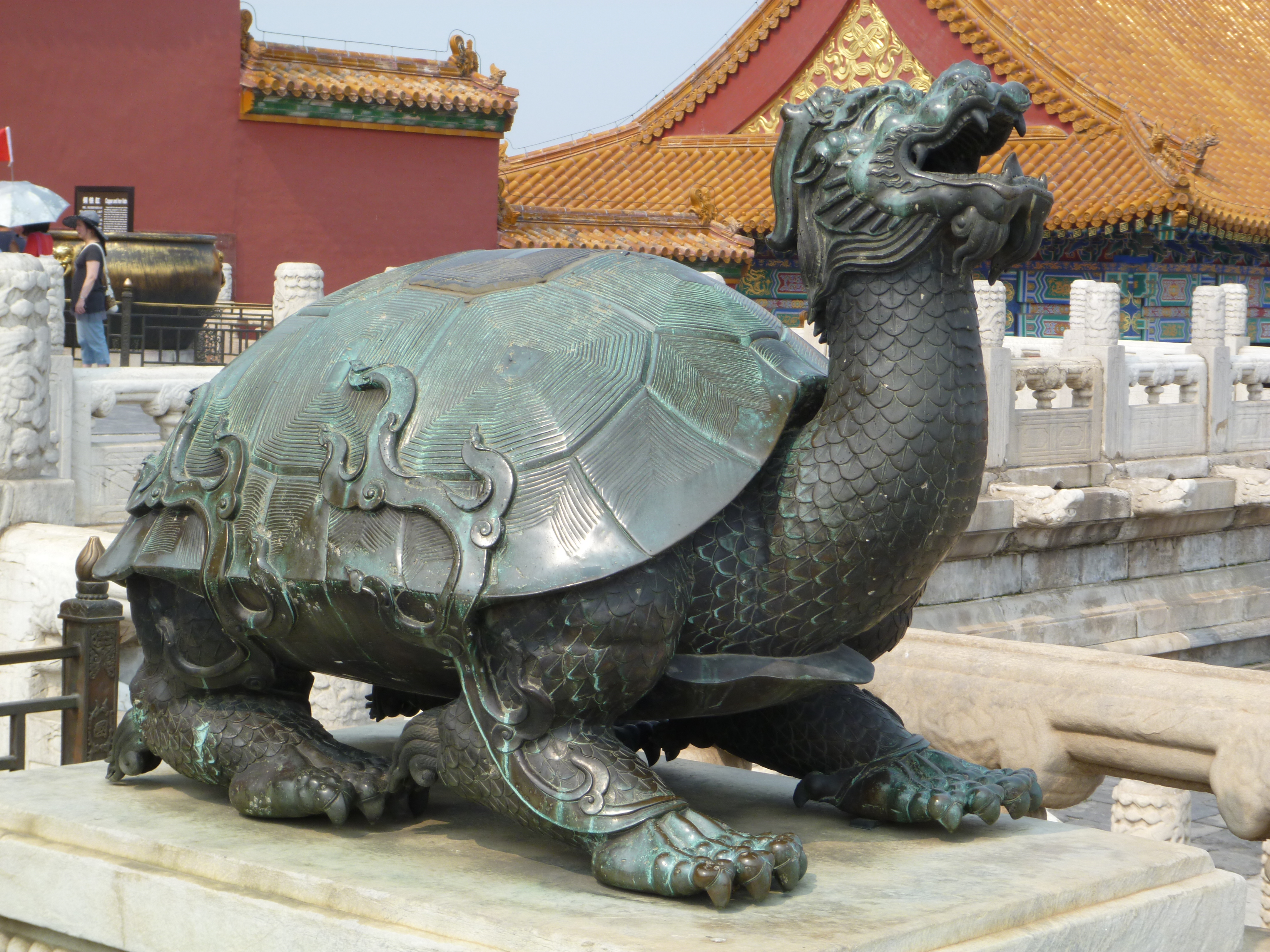 Dragon Turtles were always on of the most ferocious opponents in Dungeons and Dragons. Impenetrable armour, killer claws, terrible bite - tough as nails. This one was resting at the Forbidden City, protecting the emperor and taking a well-deserved break from terrorizing adventurers.